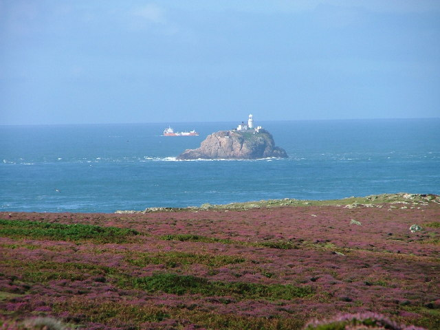 South Bishop. Em-sger or South Bishop is the southerly of a group of offshore island known as the Bishops and Clerks. Photo taken from Ramsey Island.